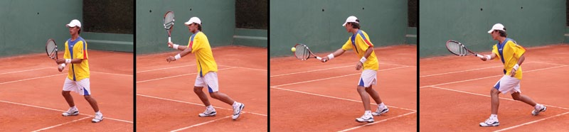 tennis